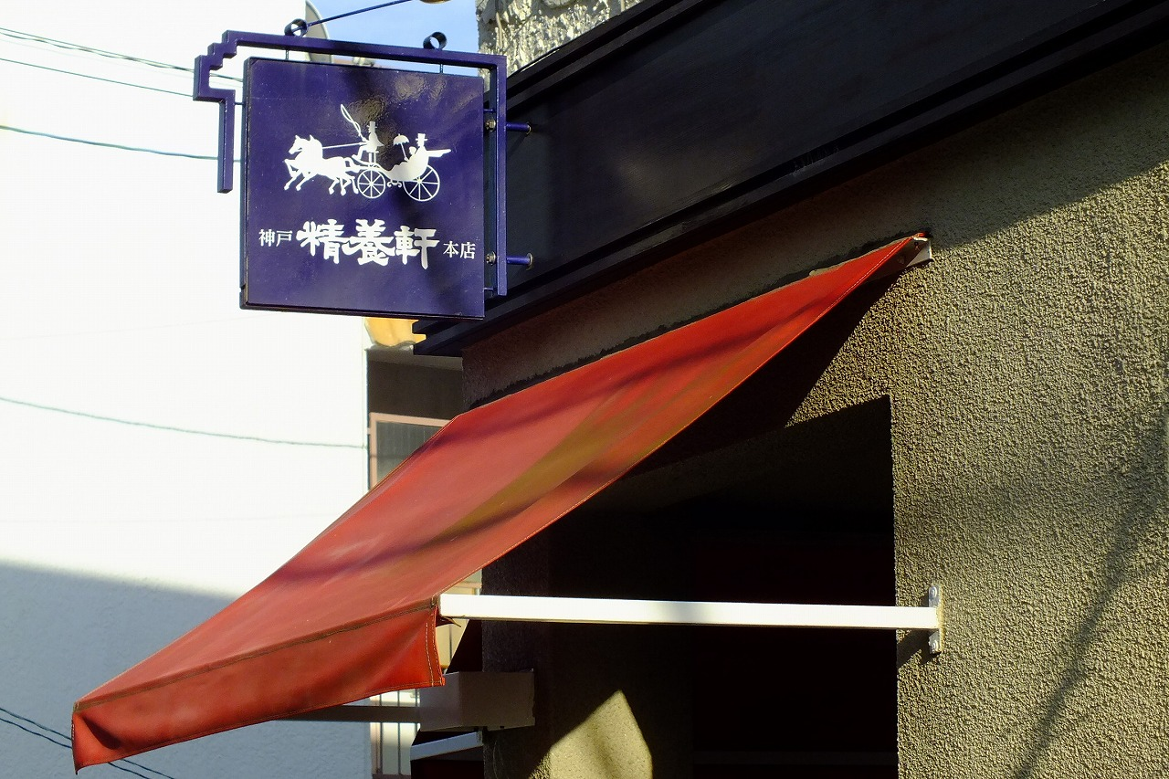 Kobe-Seiyo-ken 神戸精養軒外観